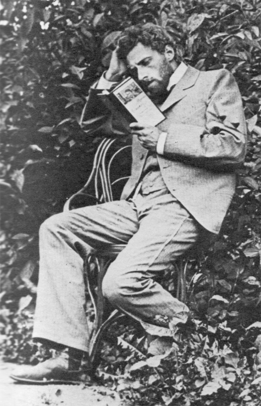 Photograph of the Russian actor Vsevolod Meyerhold (Всеволод Эмильевич Мейерхольд) preparing for his role as Konstantin in the Moscow Art Theatre's 1898 production of Anton Chekhov's The Seagull. Taken at Pushkino during rehearsals.